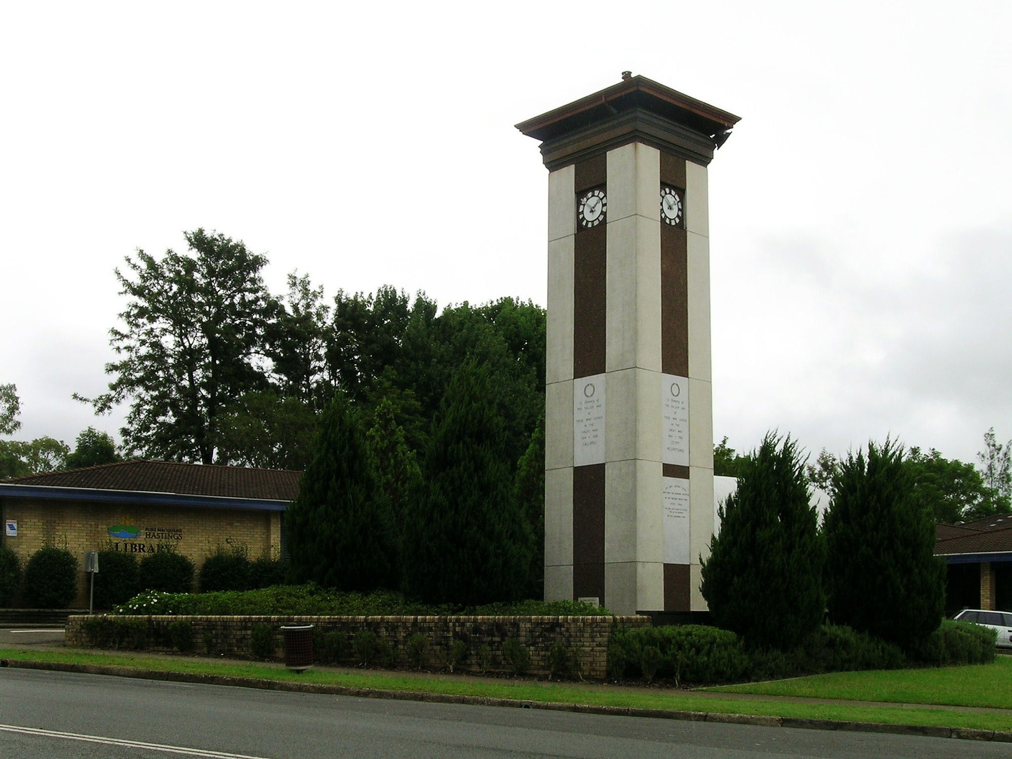 Library and war memorial, Wauchope, NSW.